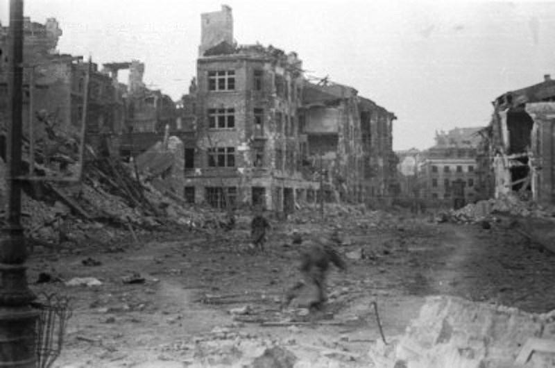 WarsawUprising: Plac Krasińskich at the corner of Długa and Miodowa Street in the direction of Bank Square. Wojciech Sarnecki "Wojtek" from "Anna" Company of "Gustaw" Battalion runs while under enemy fire, after unsuccessful attempt to break from Old Town to Śródmieście District.